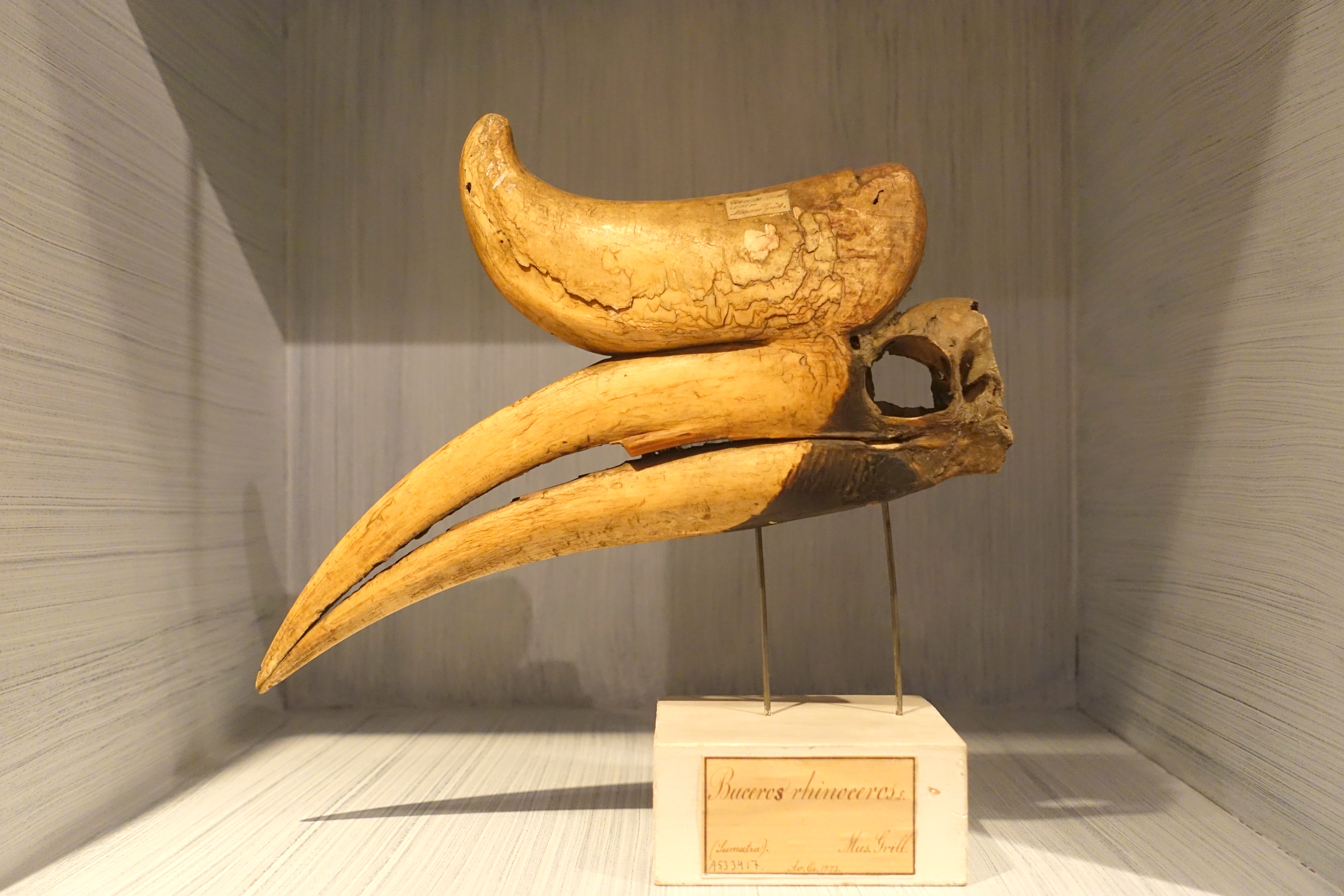 Exhibit in the Etnografiska museet, Stockholm, Sweden. This work is old enough so that it is in the public domain.